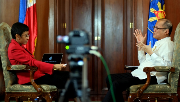 President Benigno S. Aquino III answers questions directed to him by Rappler's Chief Executive Officer Maria Ressa during an interview at the Music Room of the Malacañan Palace on Tuesday (June 07, 2016). (Photo by Joseph Vidal / Malacañang Photo Bureau)